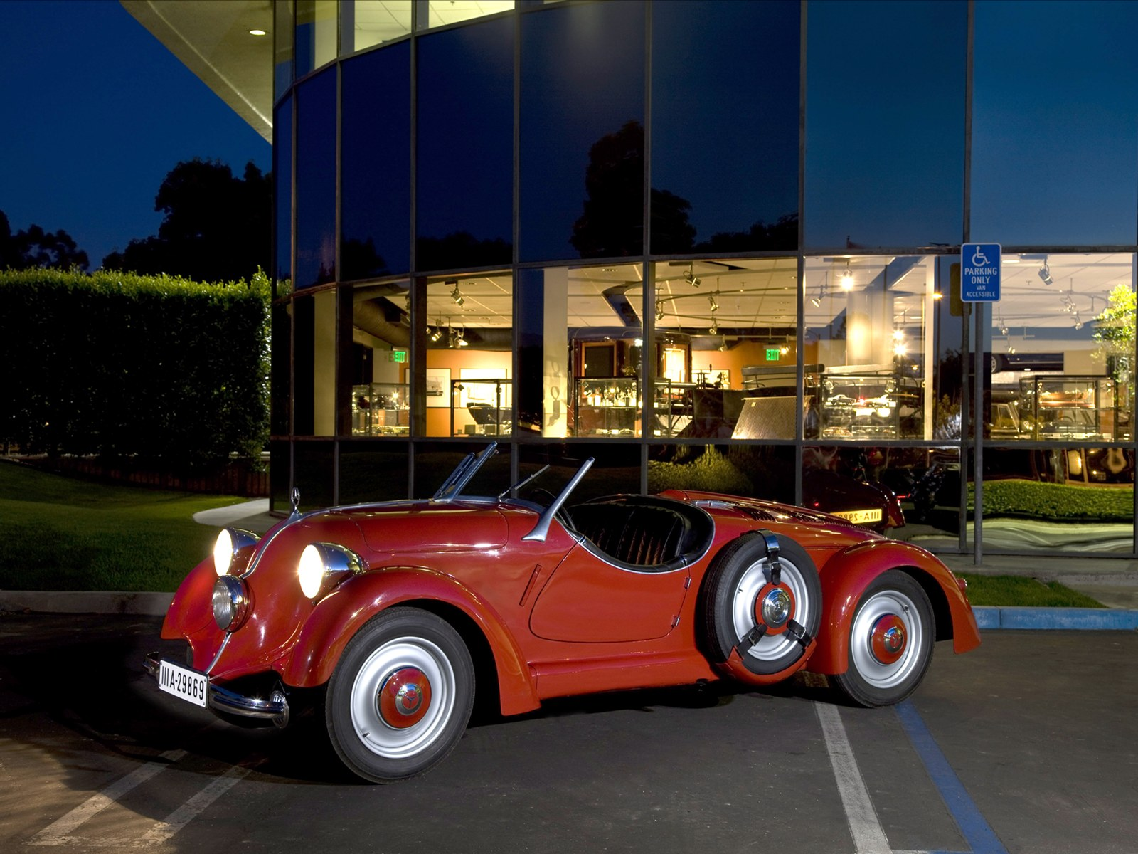 Fully Restored 1934 Mercedes-Benz 150 Sport Roadster at the Mercedes-Benz Classic Center.